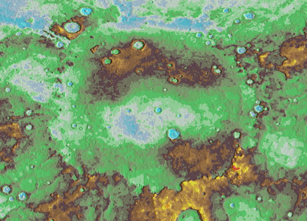 Topographic map of Caloris Basin on Mercury. Blue is low and red is high.